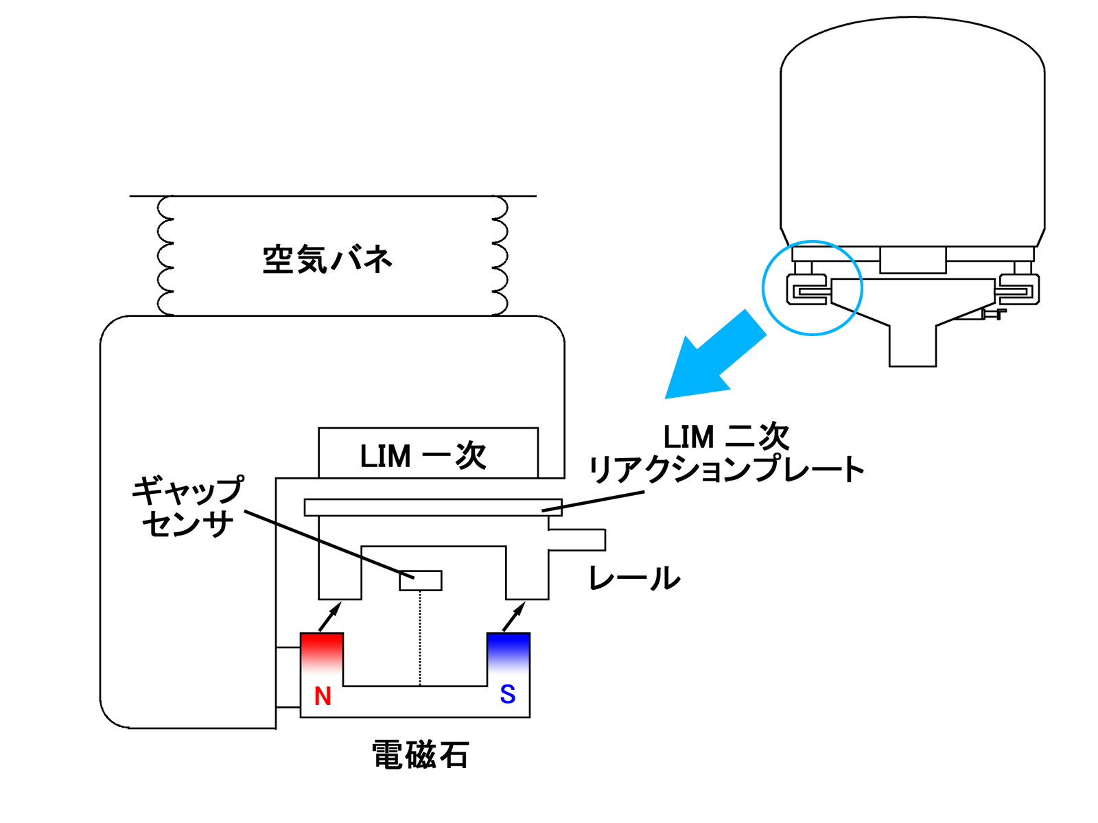 made by Yosemite.